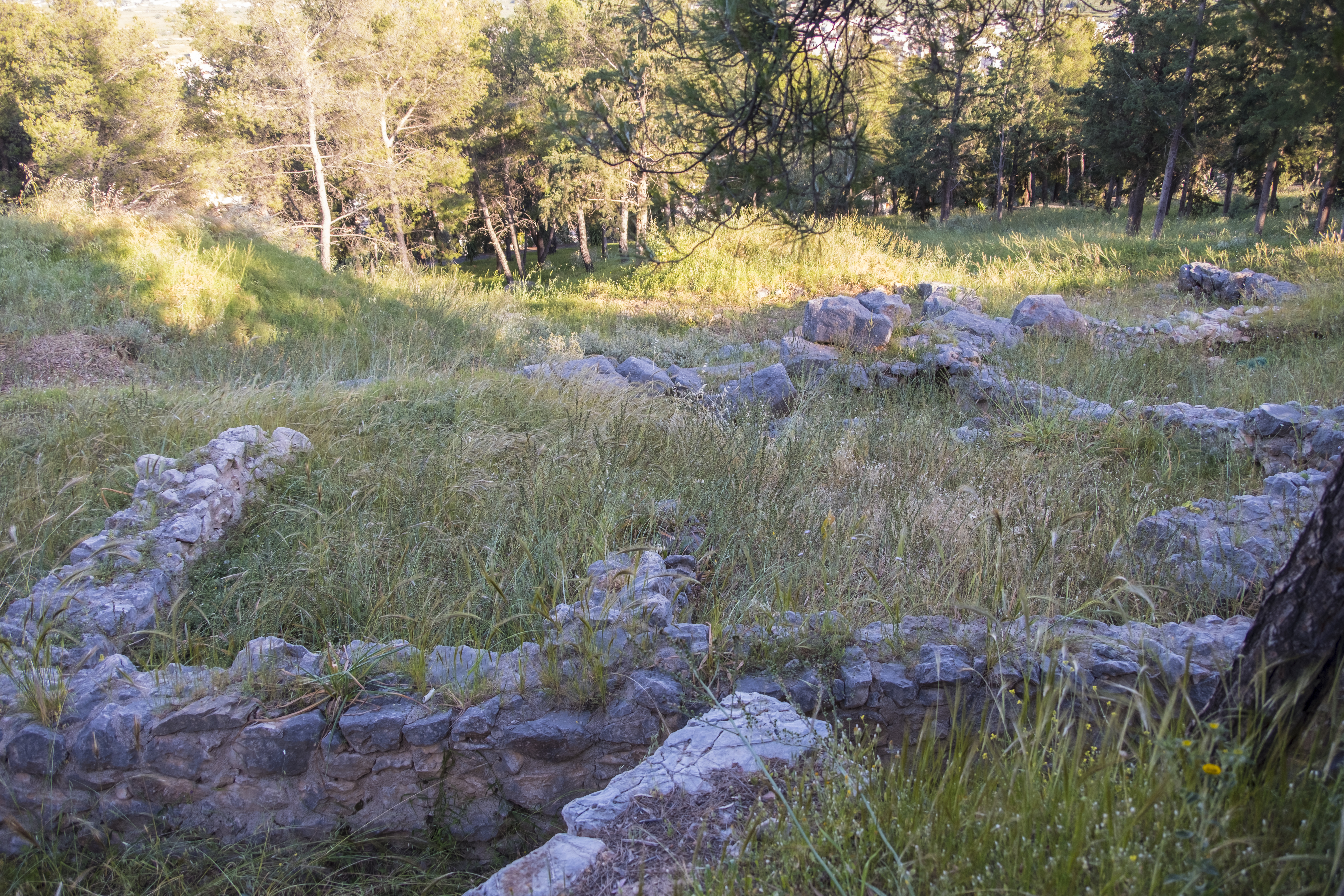 Mycenaean settlement at Aspis hill in Argos